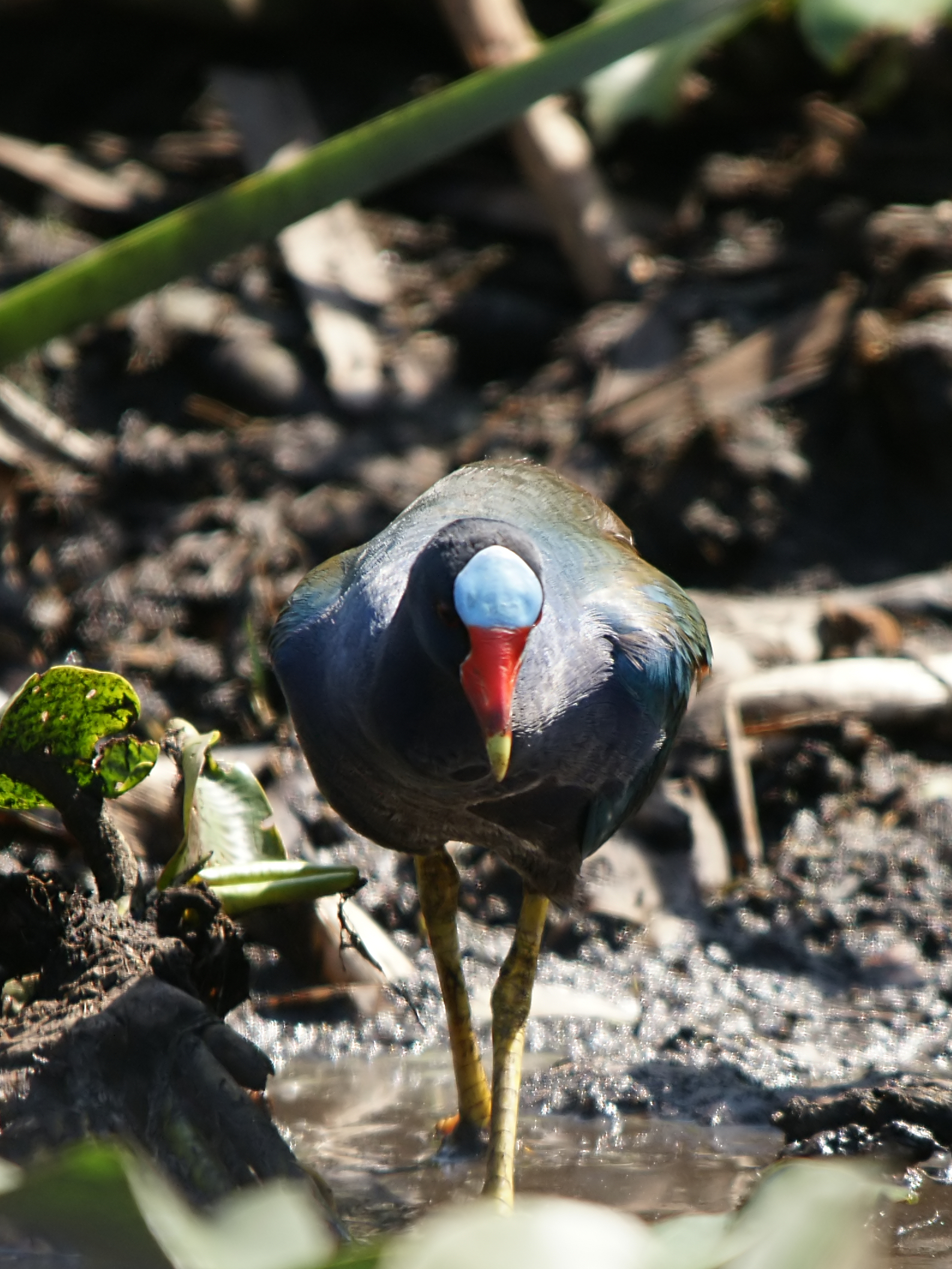 American Purple Gallinule at the Francis S. Taylor Wildlife Management Area-Water Conservation Area 3B in the Everglades National Park in Miami-Dade County, Florida, U.S.A.